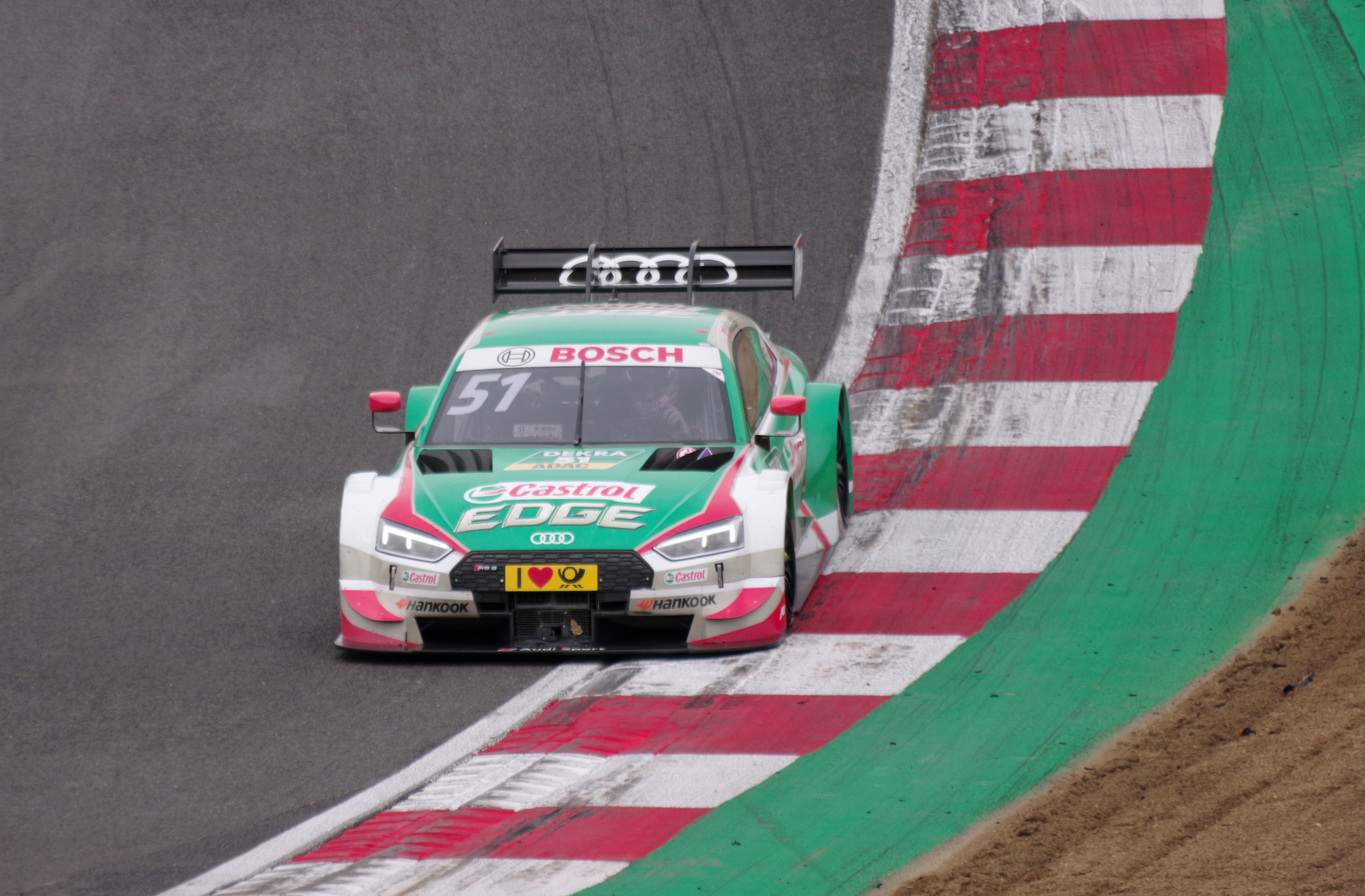 2018 Deutsche Tourenwagen Masters, Brands Hatch.